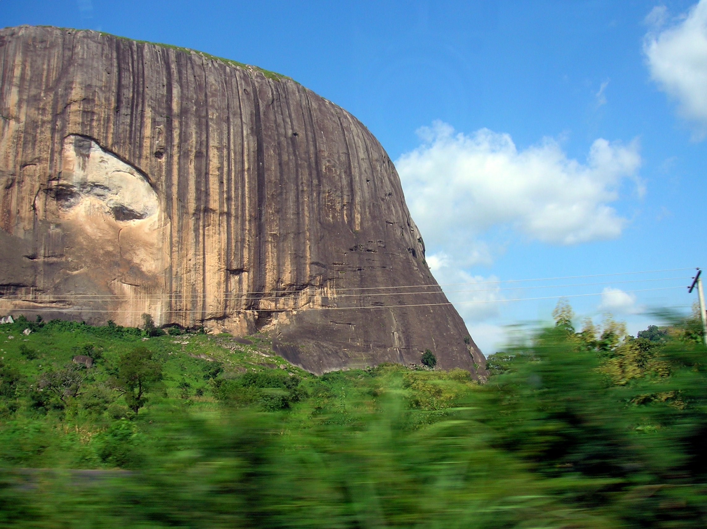 Zuma Rock in Abuja, Nigeria.